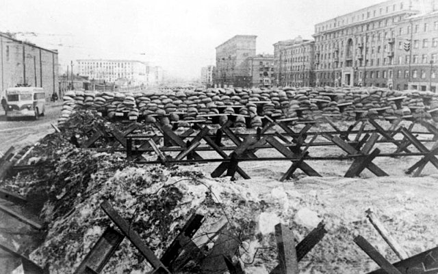 A barricade on one of Moscow's avenues made of sandbags and anti-tank hedgehogs. Autumn-winter 1941.